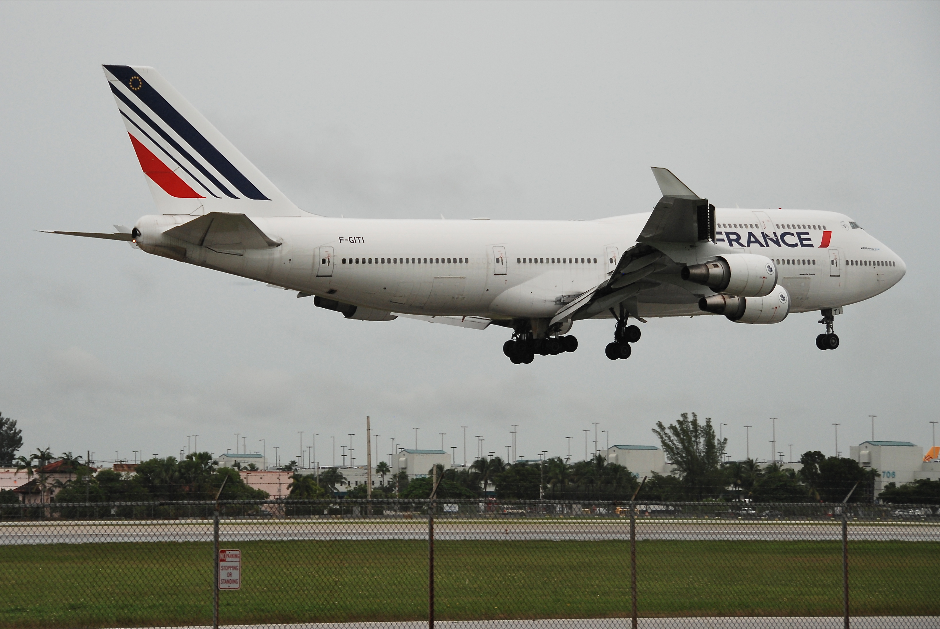 Air France Boeing 747-400; F-GITI@MIA;17.10.2011/626ma